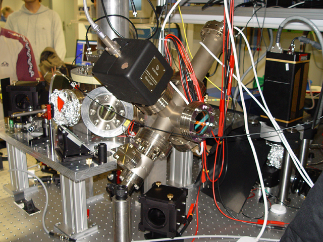 An ion trap, used with a quantum computer